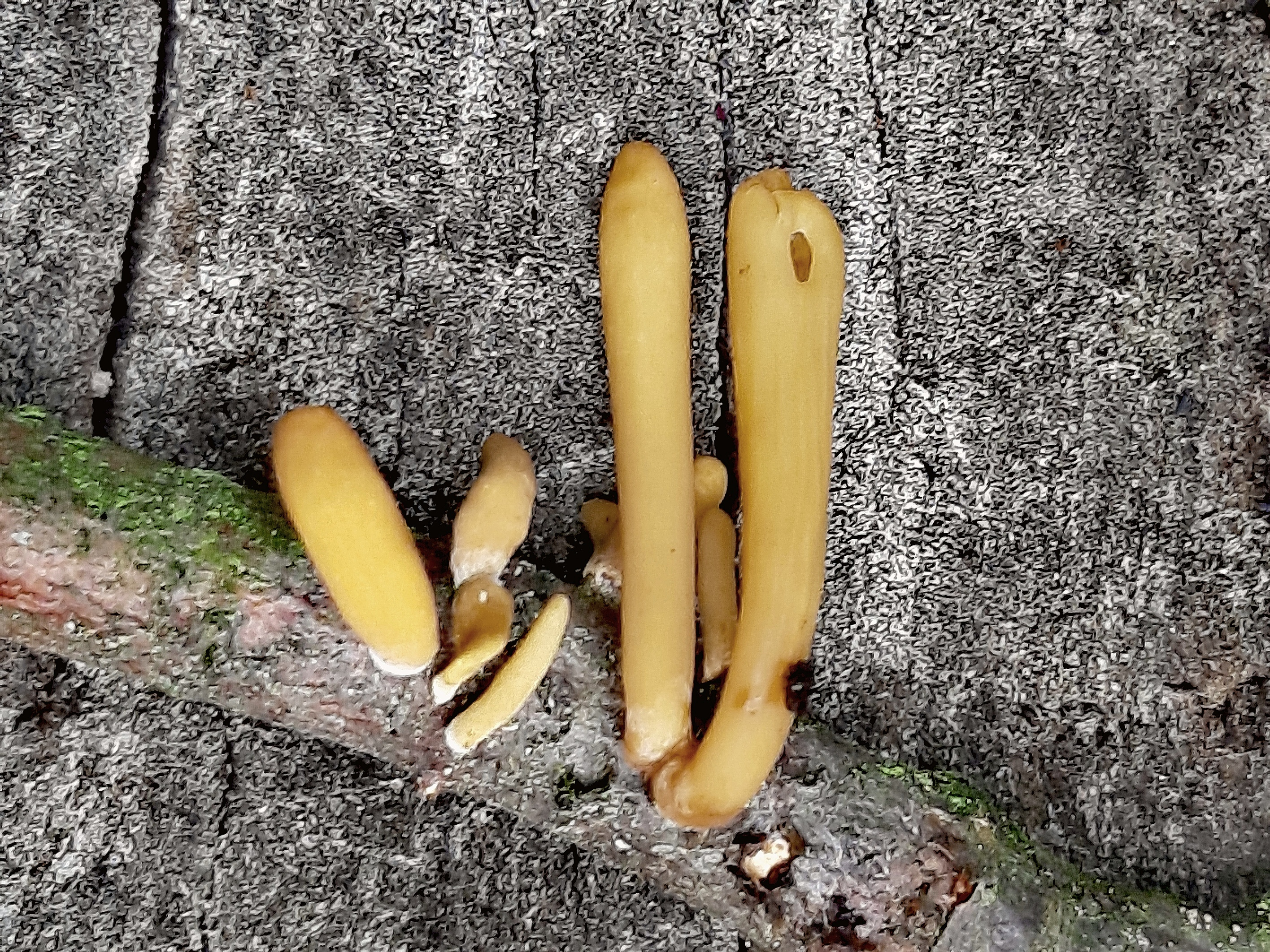 group of fruiting bodies on the branch